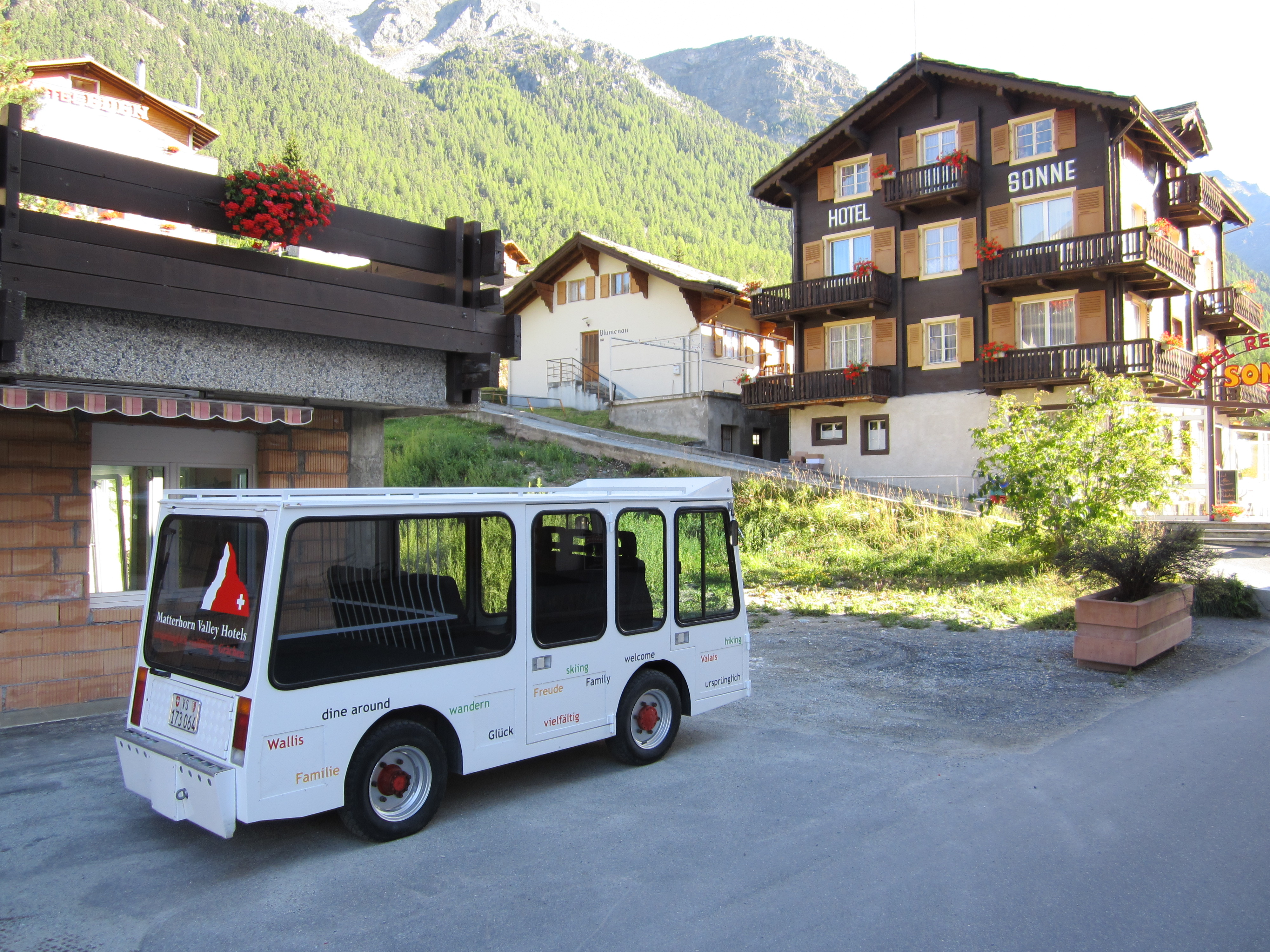 Typical electric taxi seen in Zeramatt, Saas-Fee and Grächen, Valais, Switzerland